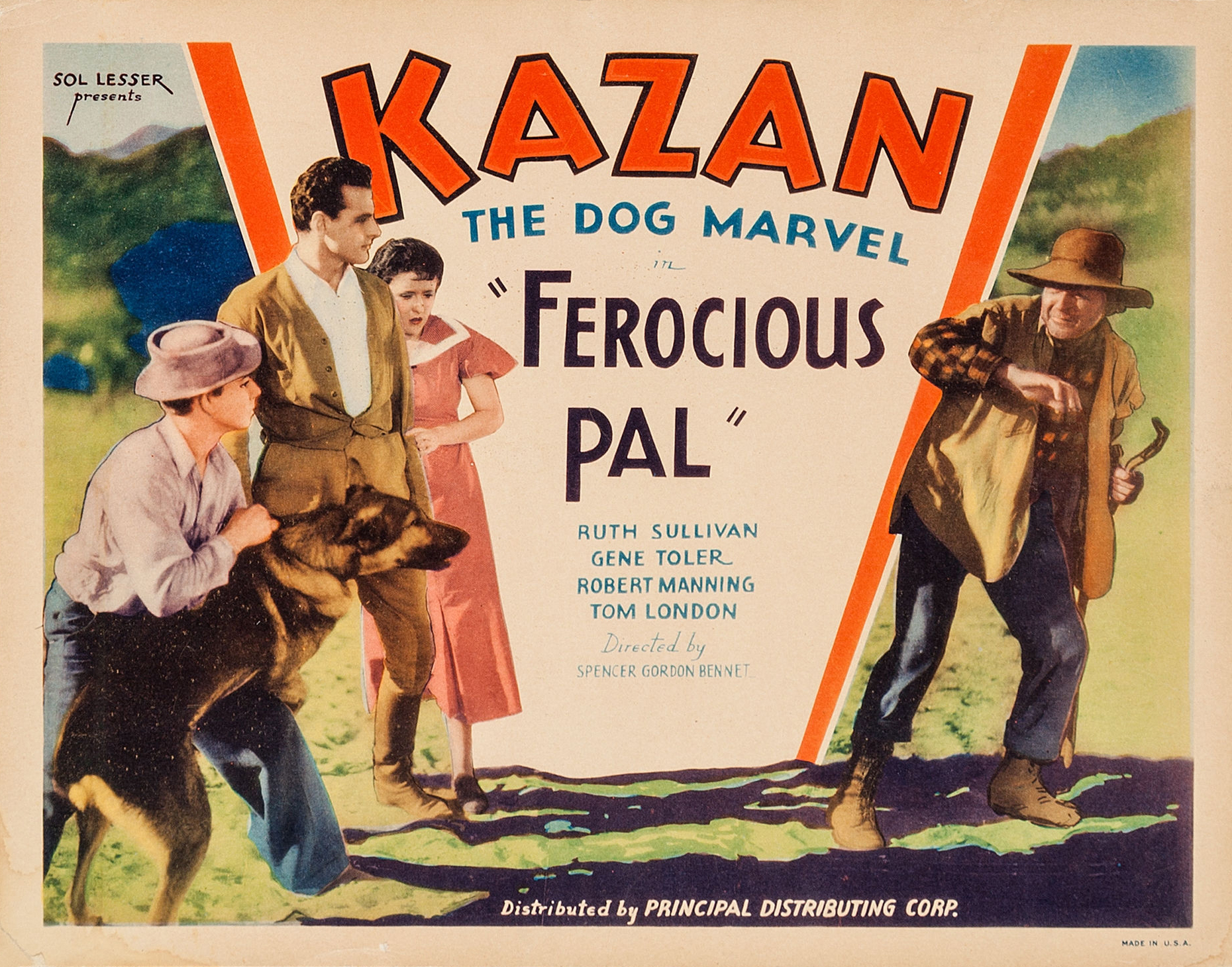 Lobby card for the American western film Ferocious Pal (1934). From left: Gene Toler, Kazan the Wonder Dog, Robert Seiter, Ruth Sullivan, and Henry Roquemore.